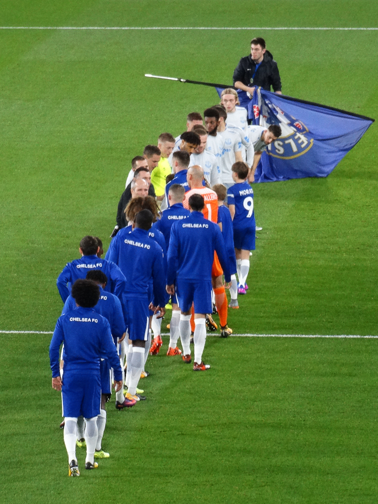 League Cup 25.10.17